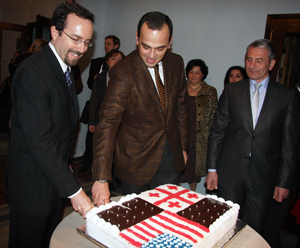 Ambassador John Bass and the Governor of Adjara, Levan Varshalomidze with US/Georgian flag cake. December 15, 2009